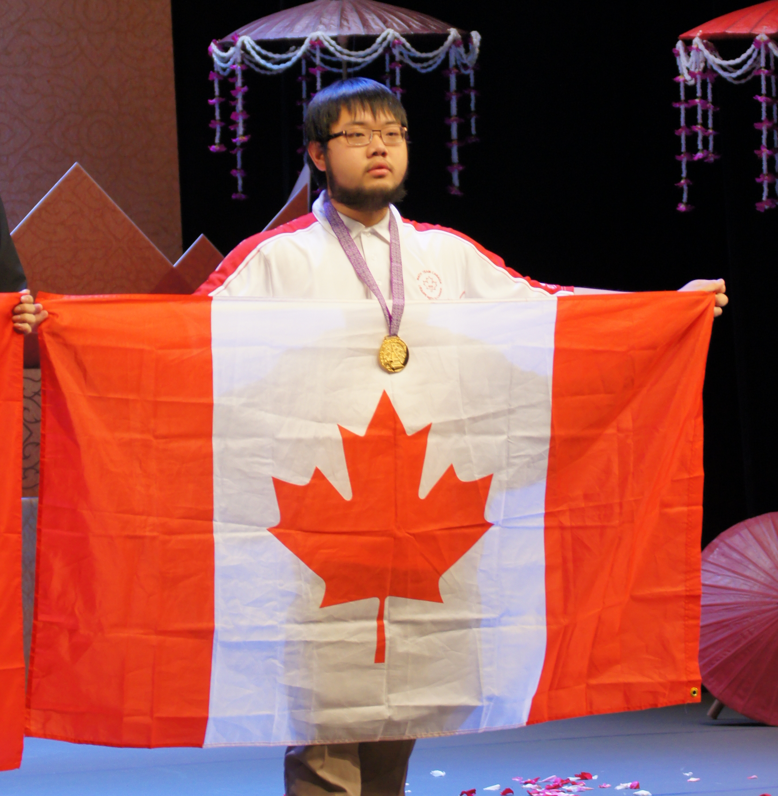 Zhuo Qun (Alex) Song (Canadian), the most successful IMO contestant with 5 golds and 1 bronze medal